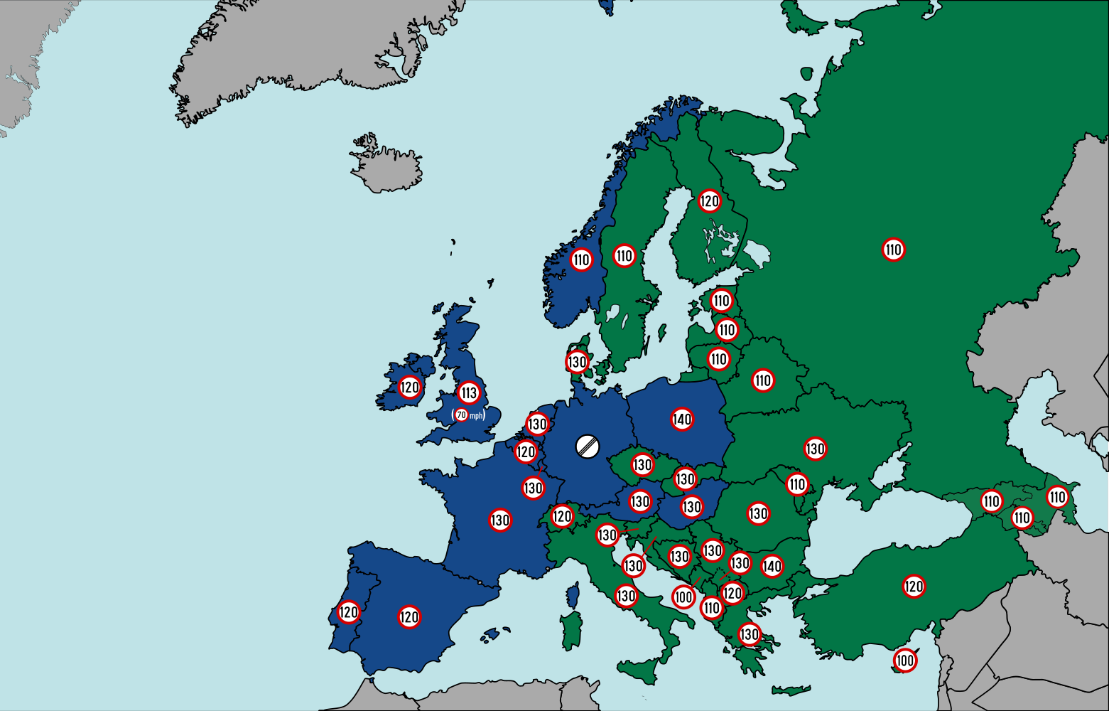 Automobile freeway speed limits in Europe and surroundings in kilometres per hour (km/h). Countries highlighted in green have green motorway signs, the countries highlighted in blue have blue motorway signs. The informations may vary as several freeways have differing speed limits.